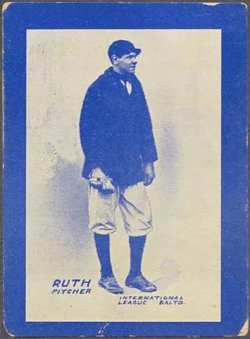 The 1914 Baltimore News set of baseball cards consists of 11 known pieces and was actually a combination card/game schedule printed by the Charm City newspaper and featuring players from both Baltimore's International League and Federal League teams. This card depicts Babe Ruth.